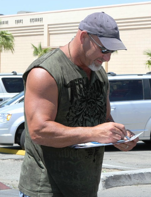 Former wrestling champion and actor Bill Goldberg autographs a promotional photo of himself.